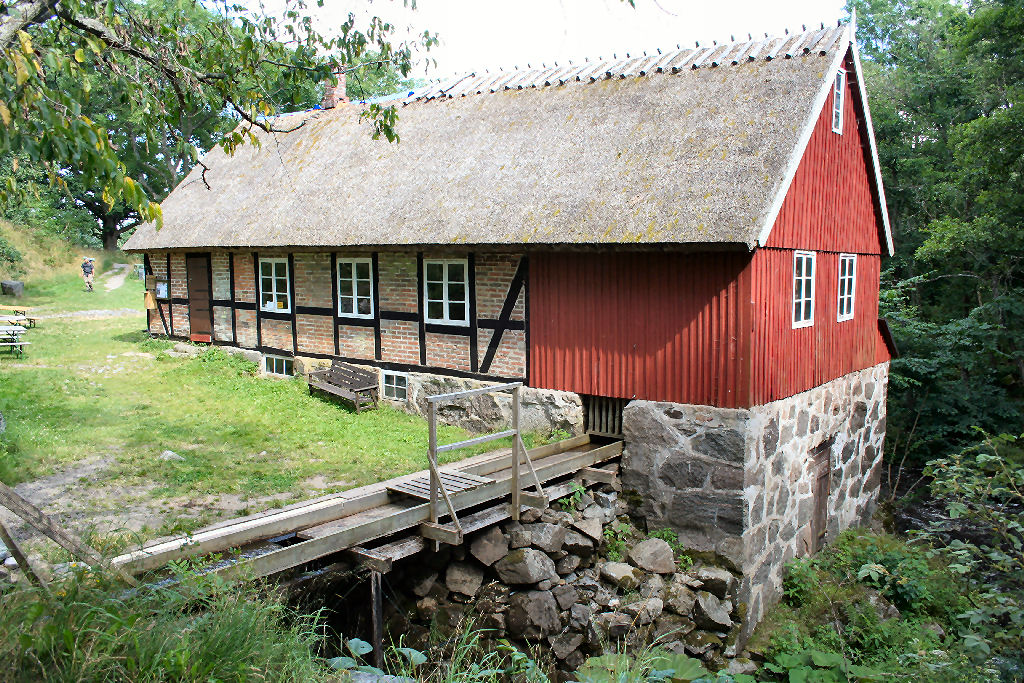 The Hallamölla water mill near Eljaröd in Skania (Sweden).